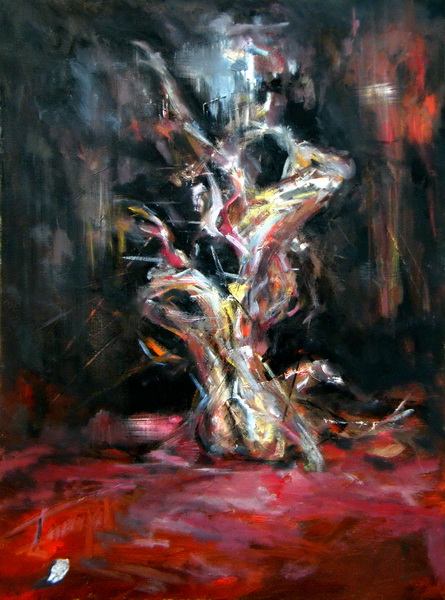 The painting represent an erotic allusion between a man and a woman where the red color is used to highlight the passionate atmosphere.